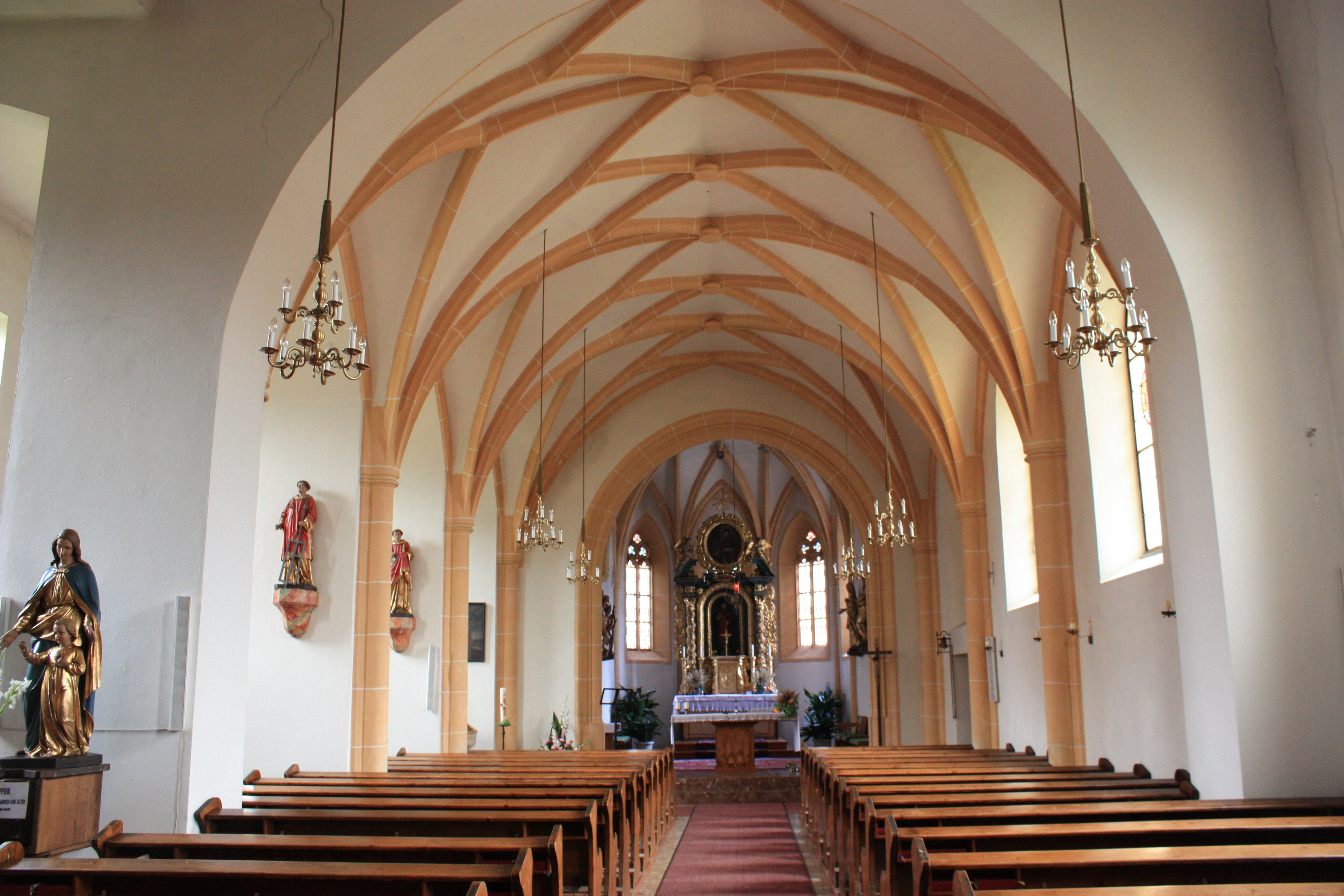 Parish church Saint Stephanus - Interior Locality: Sankt Stefan im Lavanttal Community:Wolfsberg